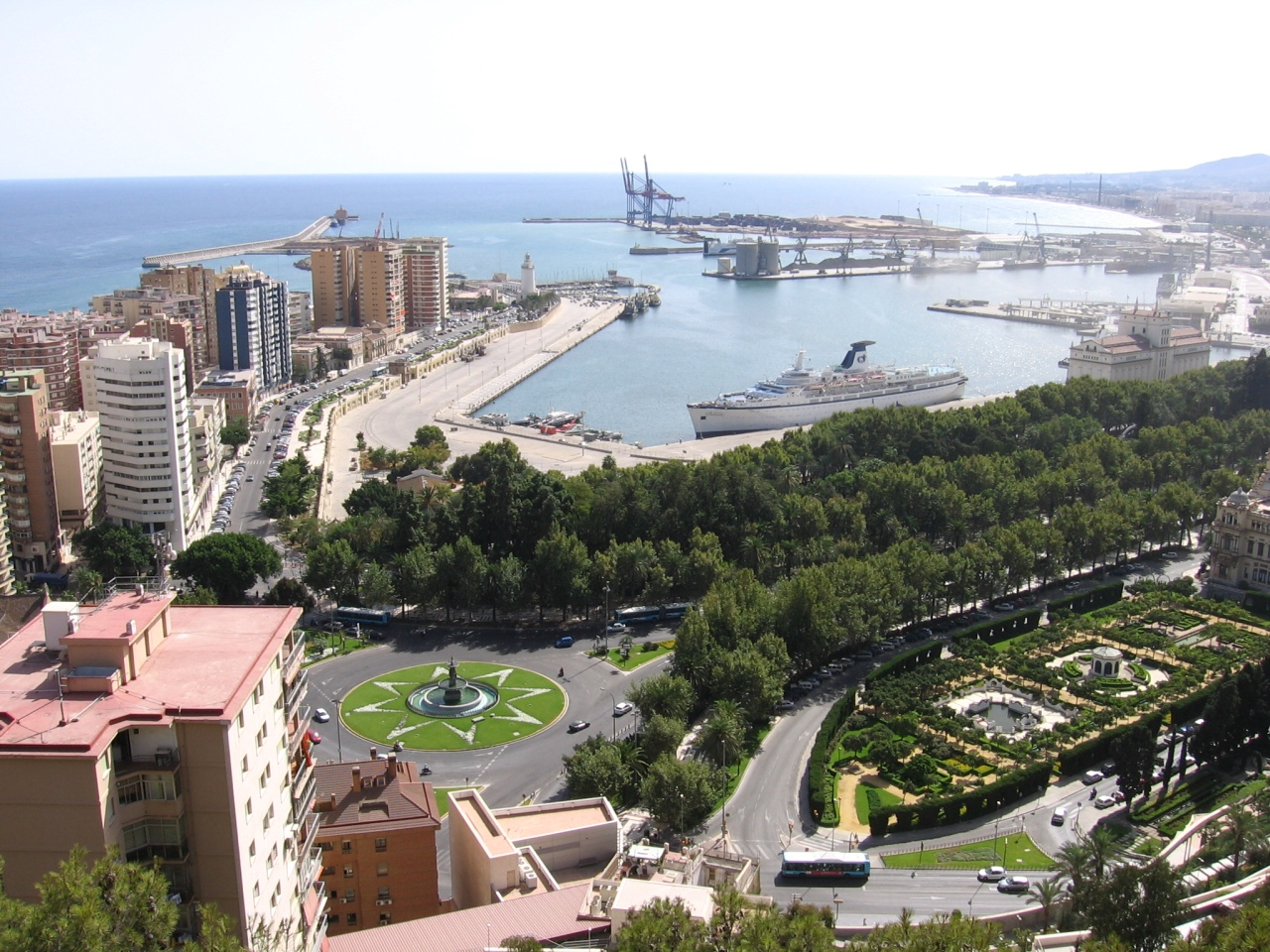 Málaga, Spain - harbour. photo 16:23, September 15th, 2005 by Julo